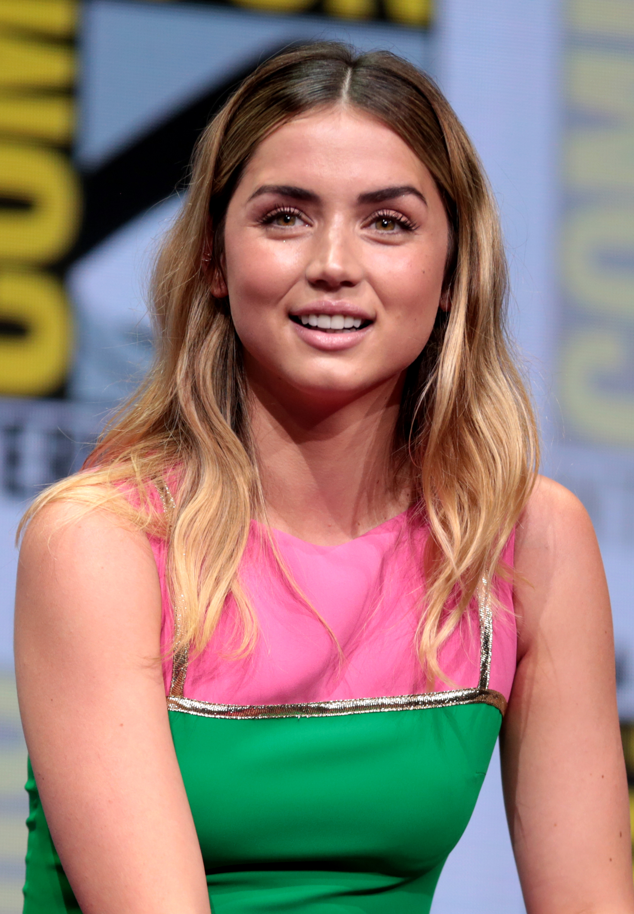 Ana de Armas speaking at the 2017 San Diego Comic-Con International in San Diego, California.